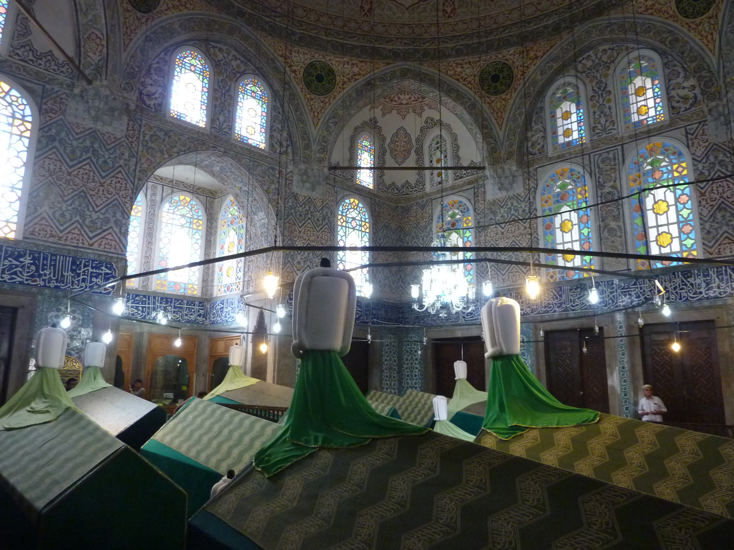 Mausoleum of Sultan Ahmed I. Located across the street from the German Fountain in downtown Istanbul.